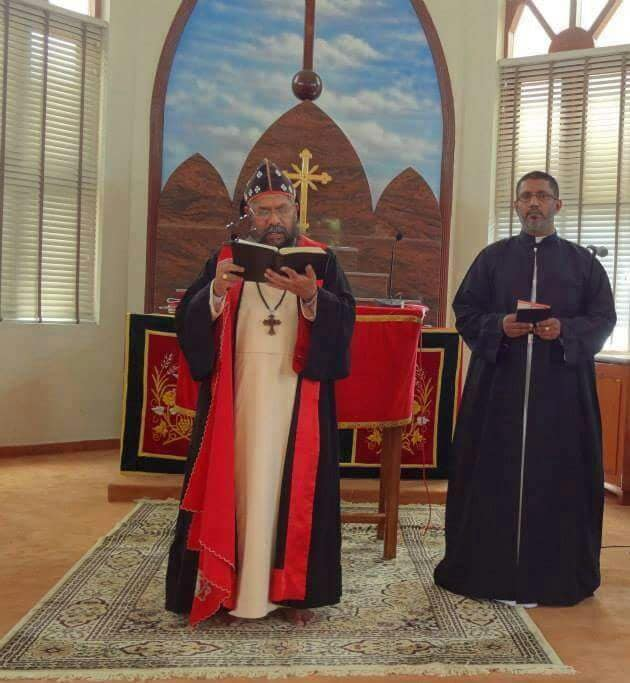 Bishop of the Mar Thoma Church and a priest